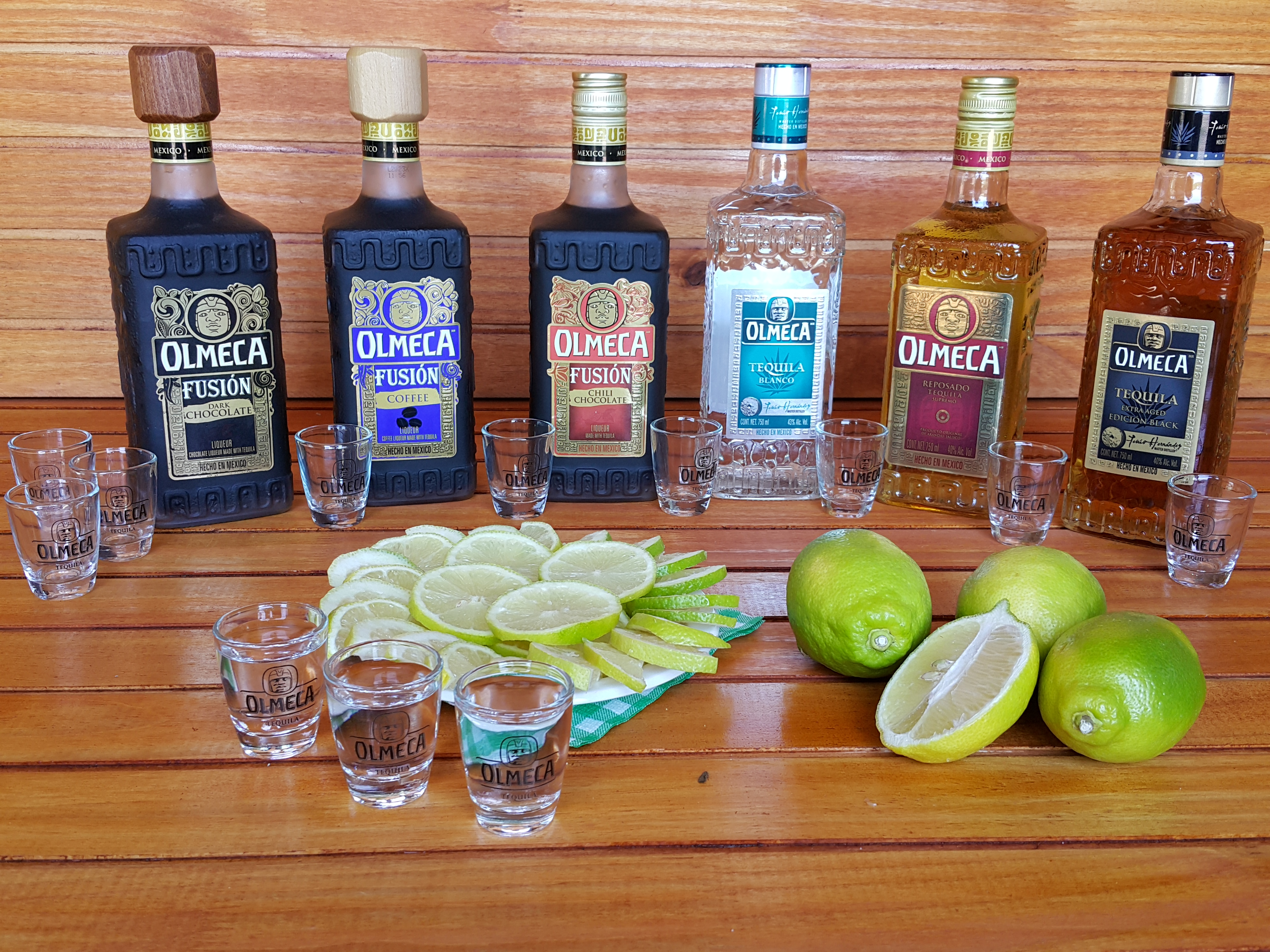 Part of the Olmeca Tequila as sold in South Africa